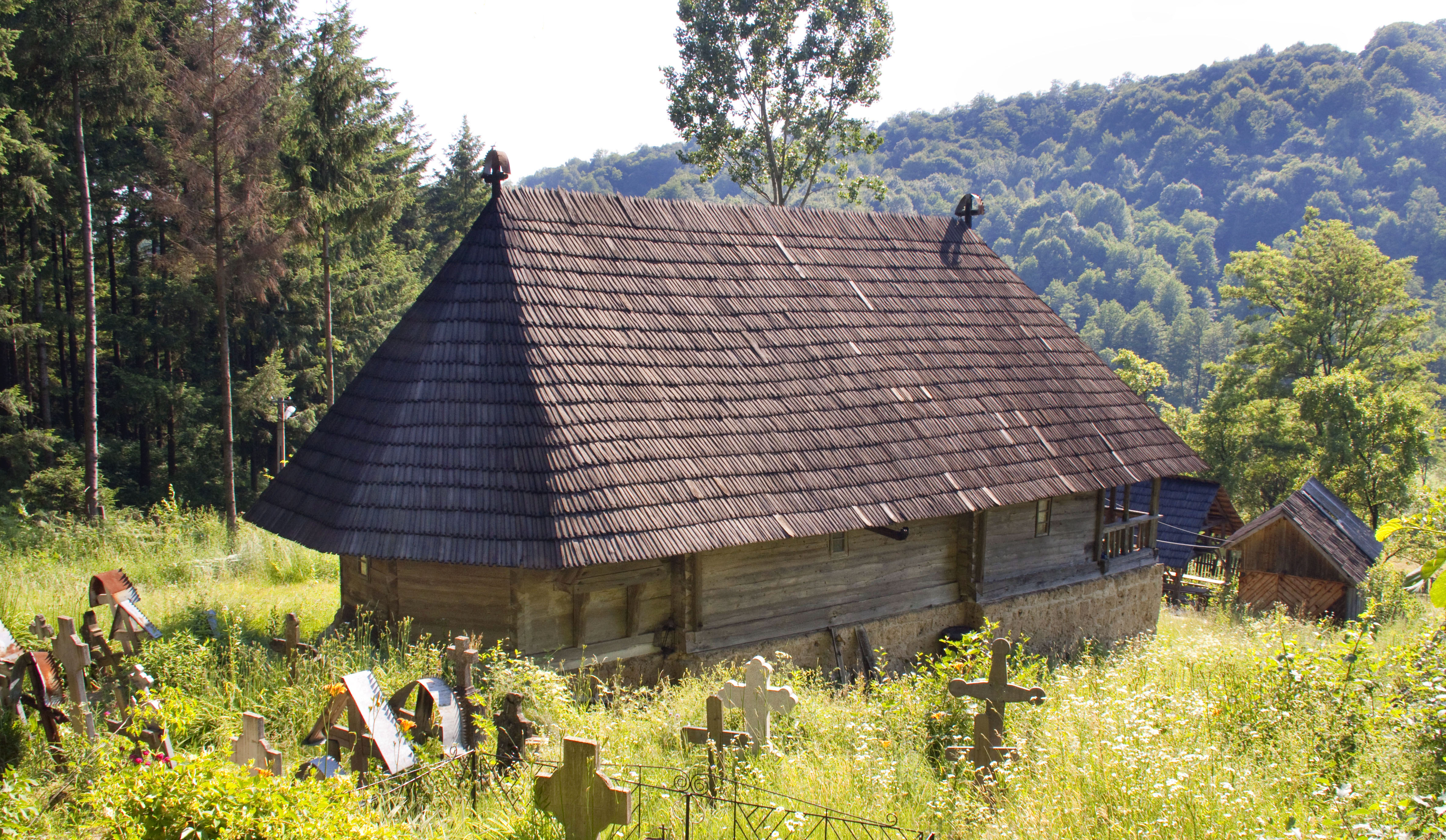 Grămeşti, Pietreni, Vâlcea county, Romania: the wooden church. North side.